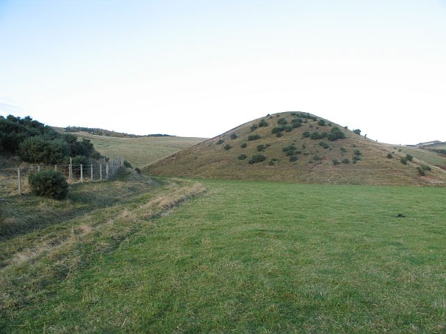 Kame below Wester Pearsie Glacial deposits amongst good grazing land.